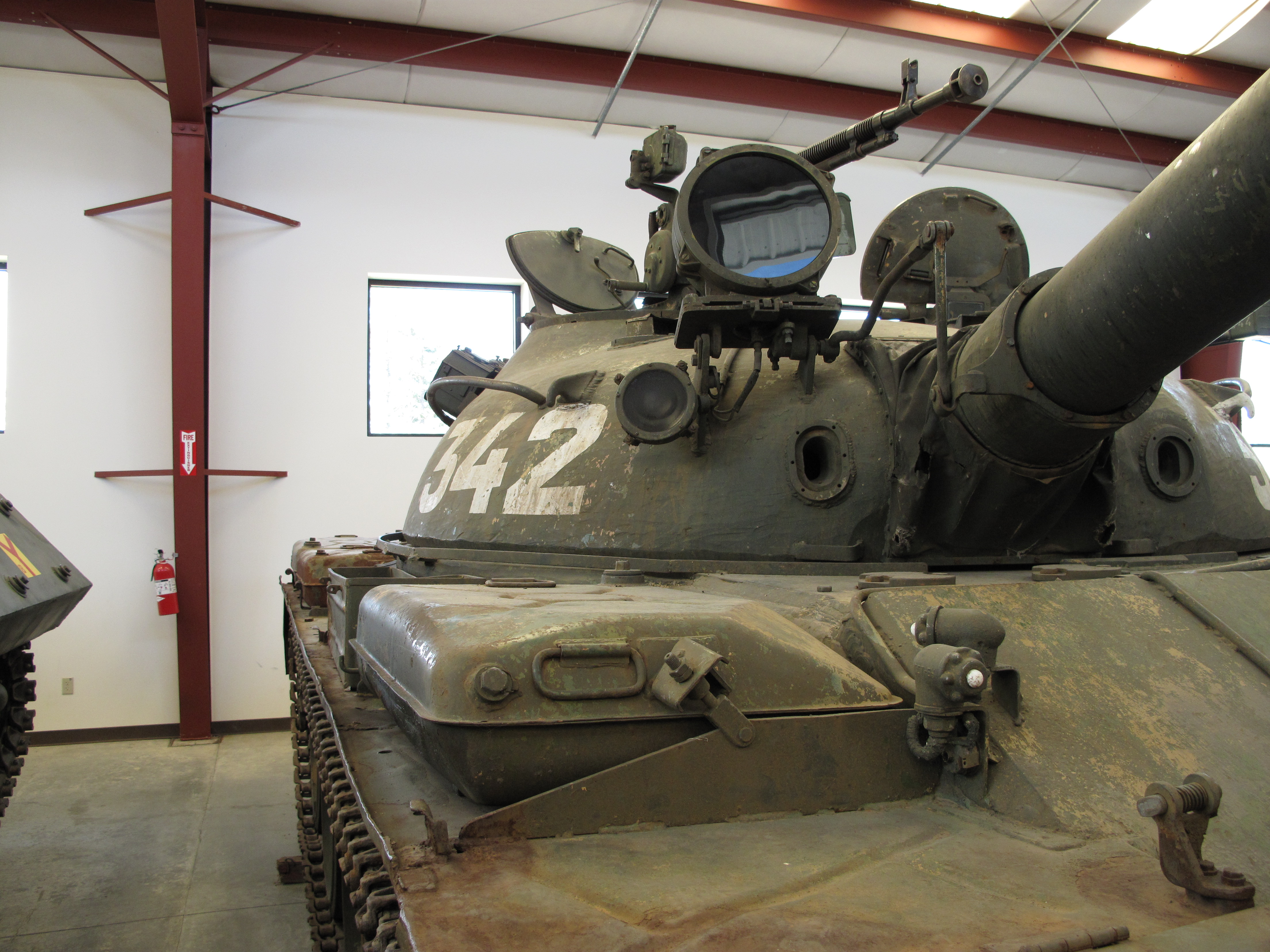 Right side of the T-62 tank at the Military Vehicle Technology Foundation.